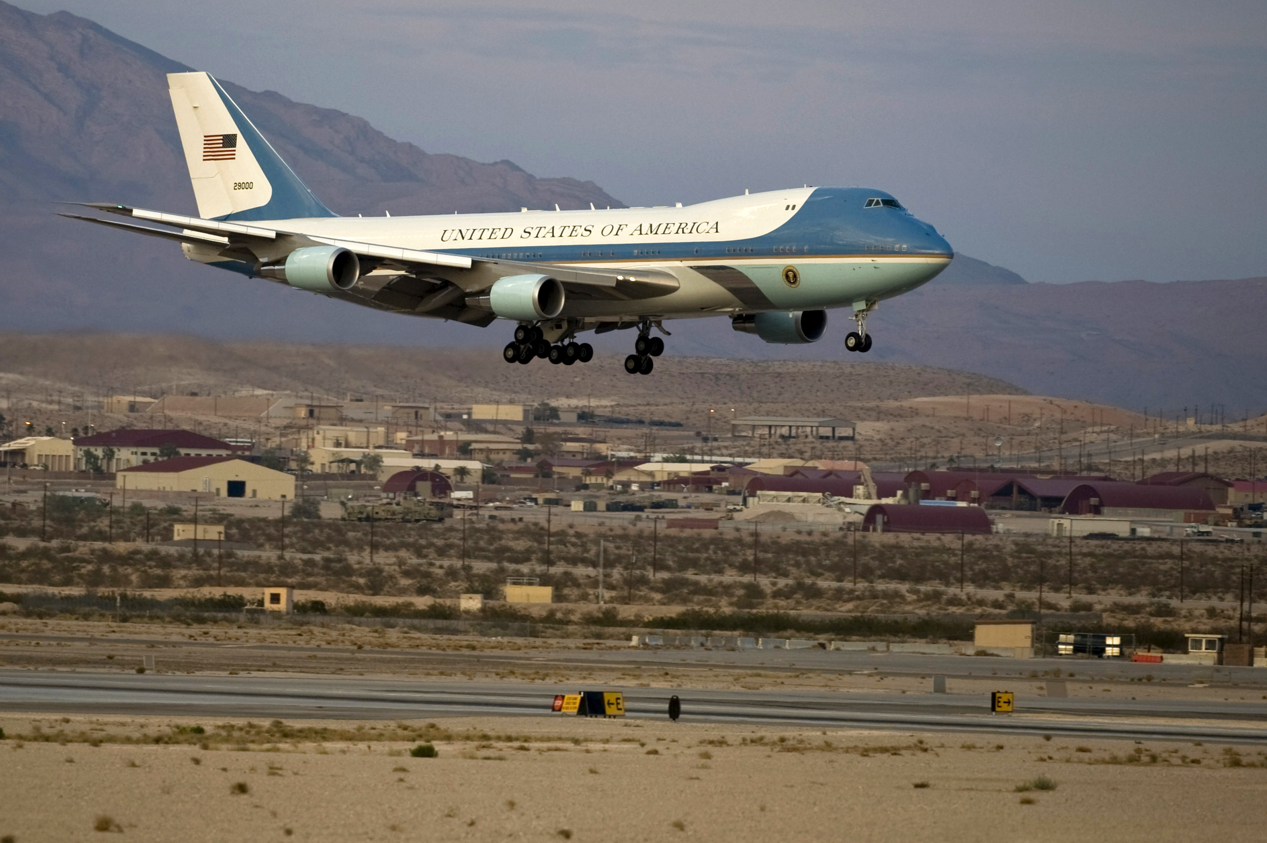 Air Force One lands Aug. 21, 2012, at Nellis Air Force Base, Nev. The VC-25A, Air Force One, is a modified version of the Boeing 747 that transports the president of the United States.